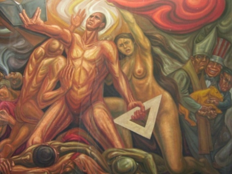 Mural de Guillermo Chávez Vega en la Preparatoria Jalisco